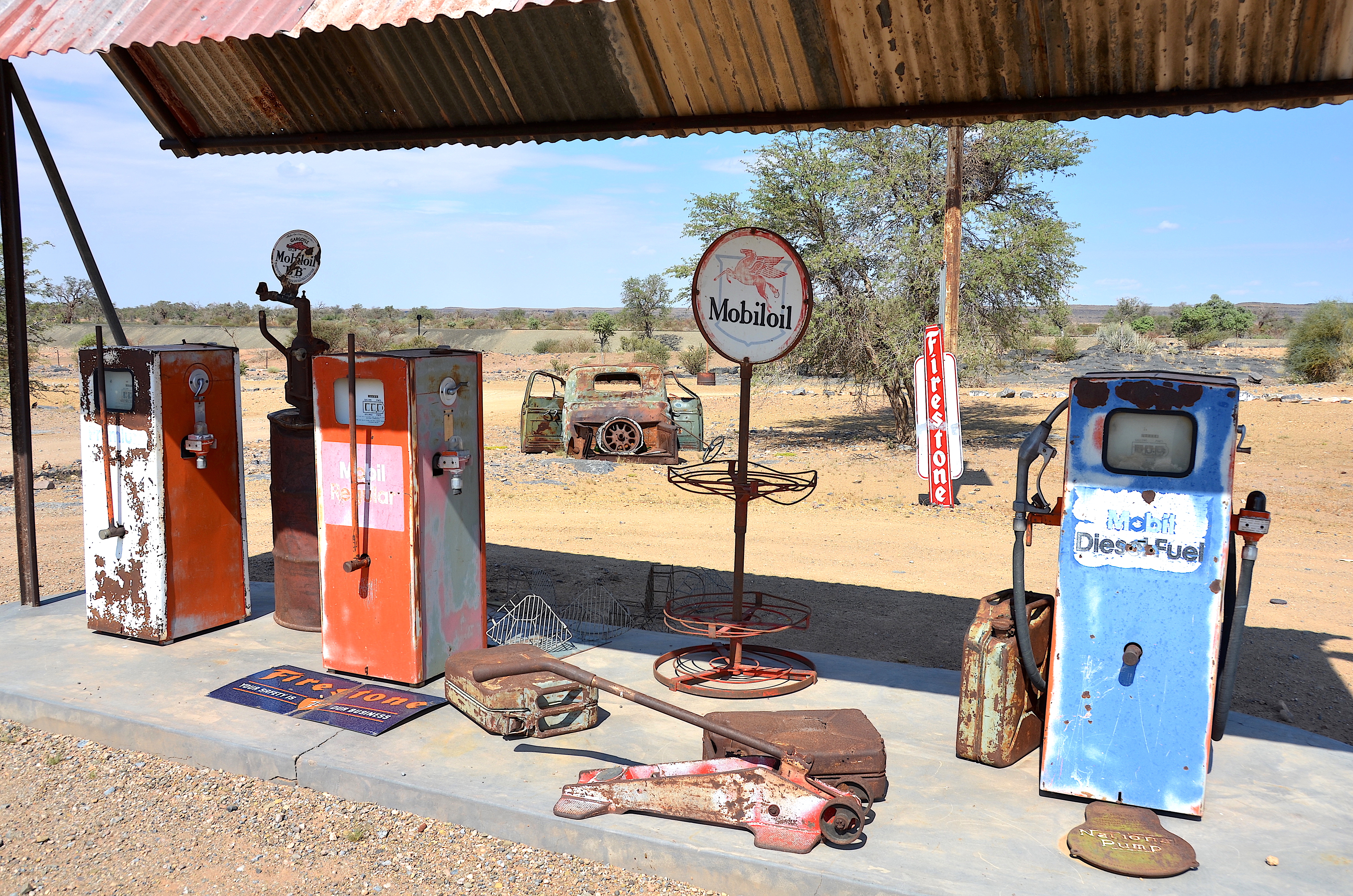 Old petrol station on Farm Simplon in Namibia (2017)